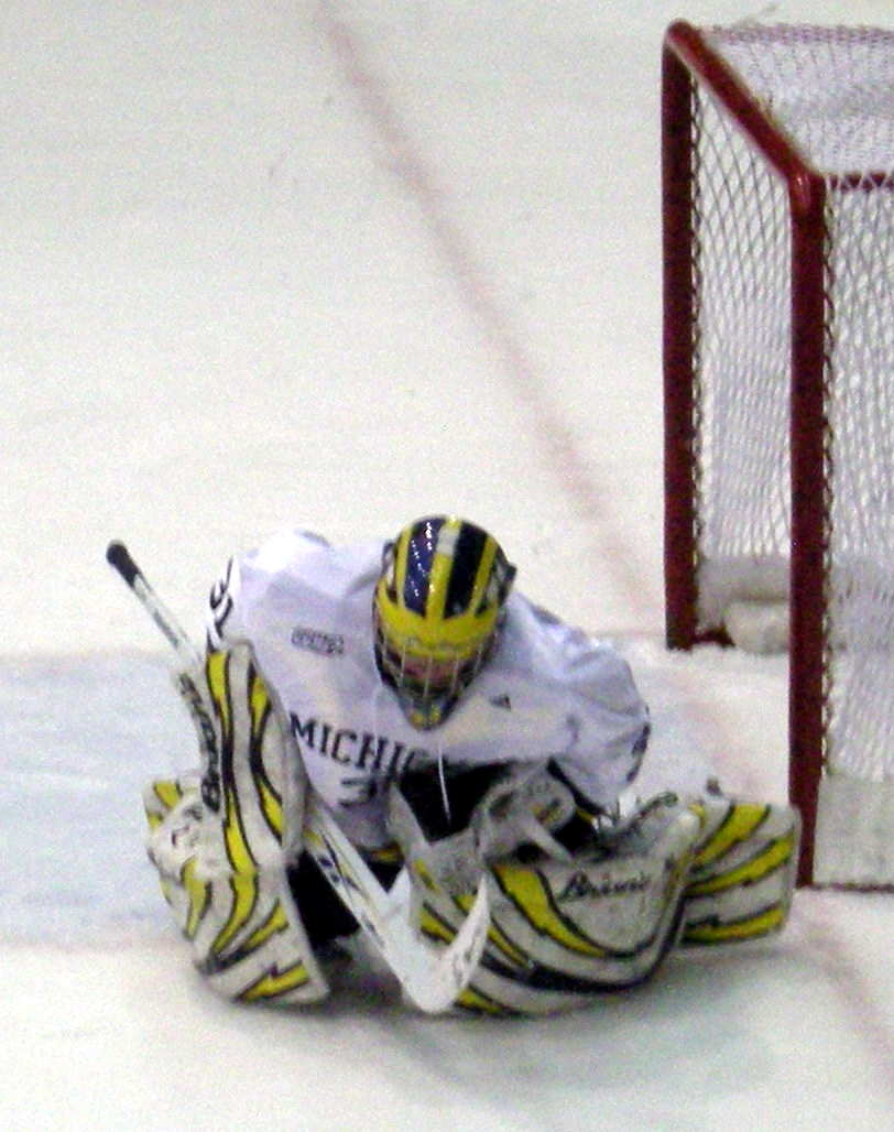 Shawn Hunwick during the Lake Superior State Lakers vs. Michigan Wolverines men's ice hockey game at Yost Ice Arena in Ann Arbor, Michigan (United States). Michigan won 5–2.